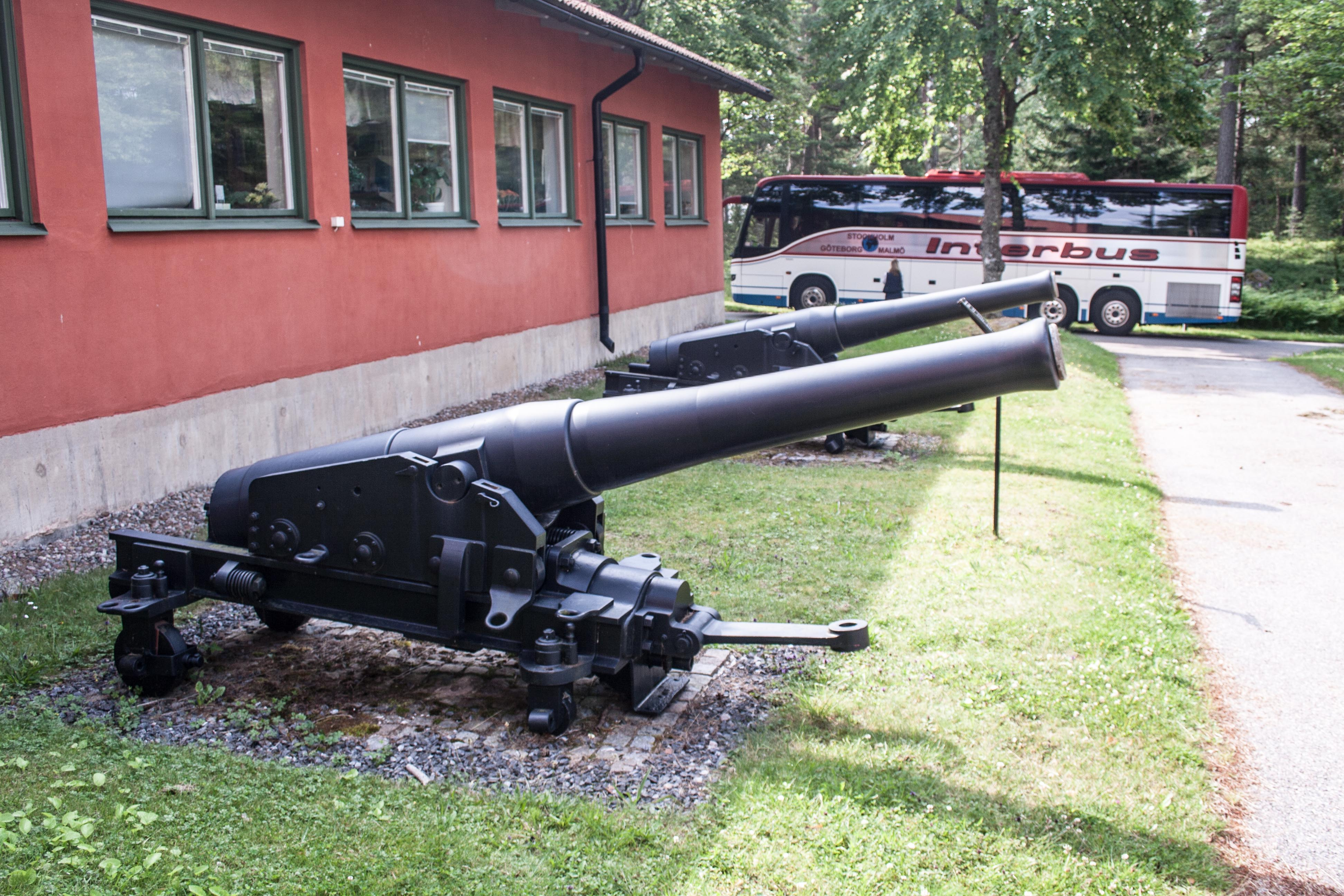 Guns of the Disa and Rota gunboats